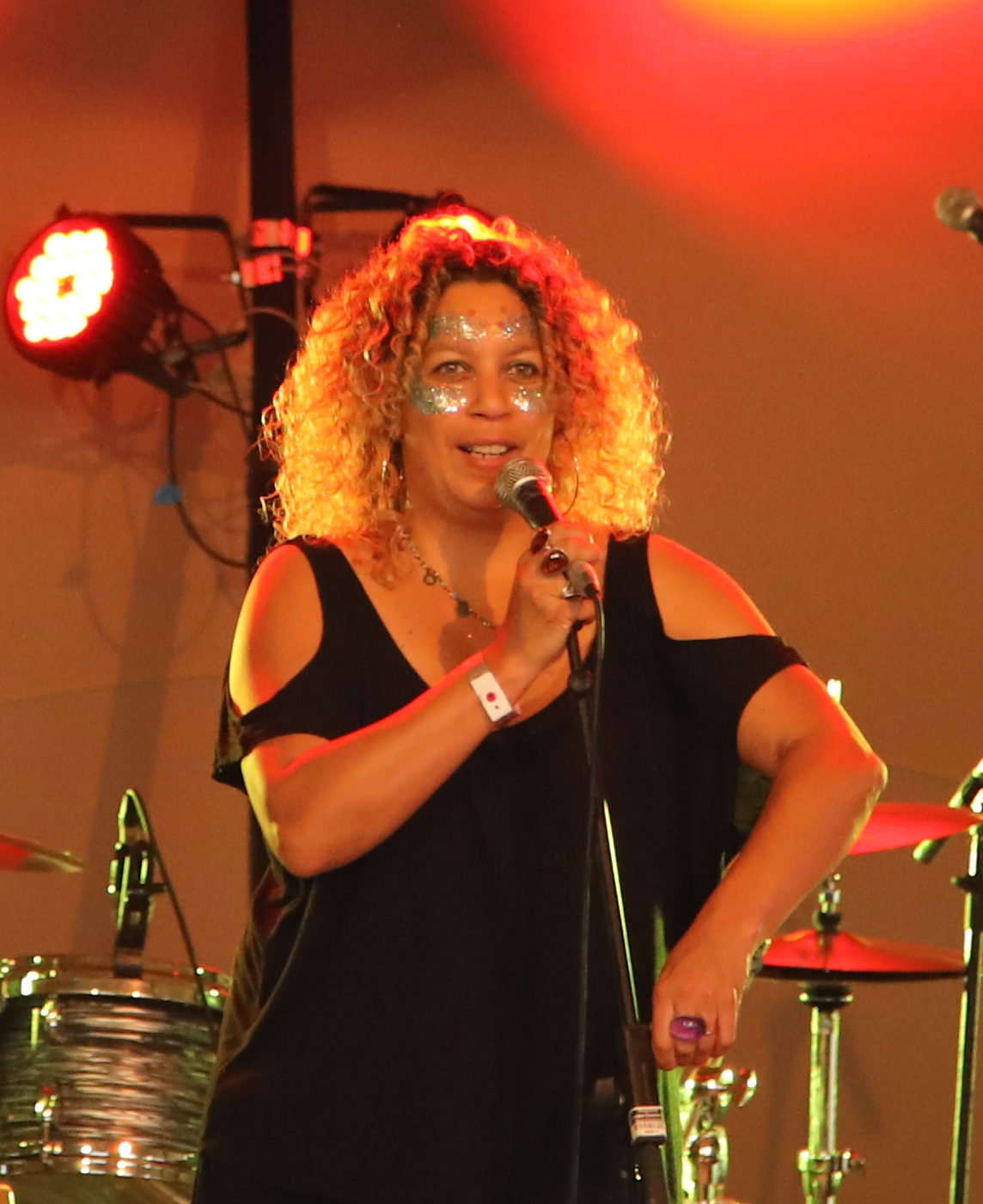 Photo of Salena Godden at Byline festival